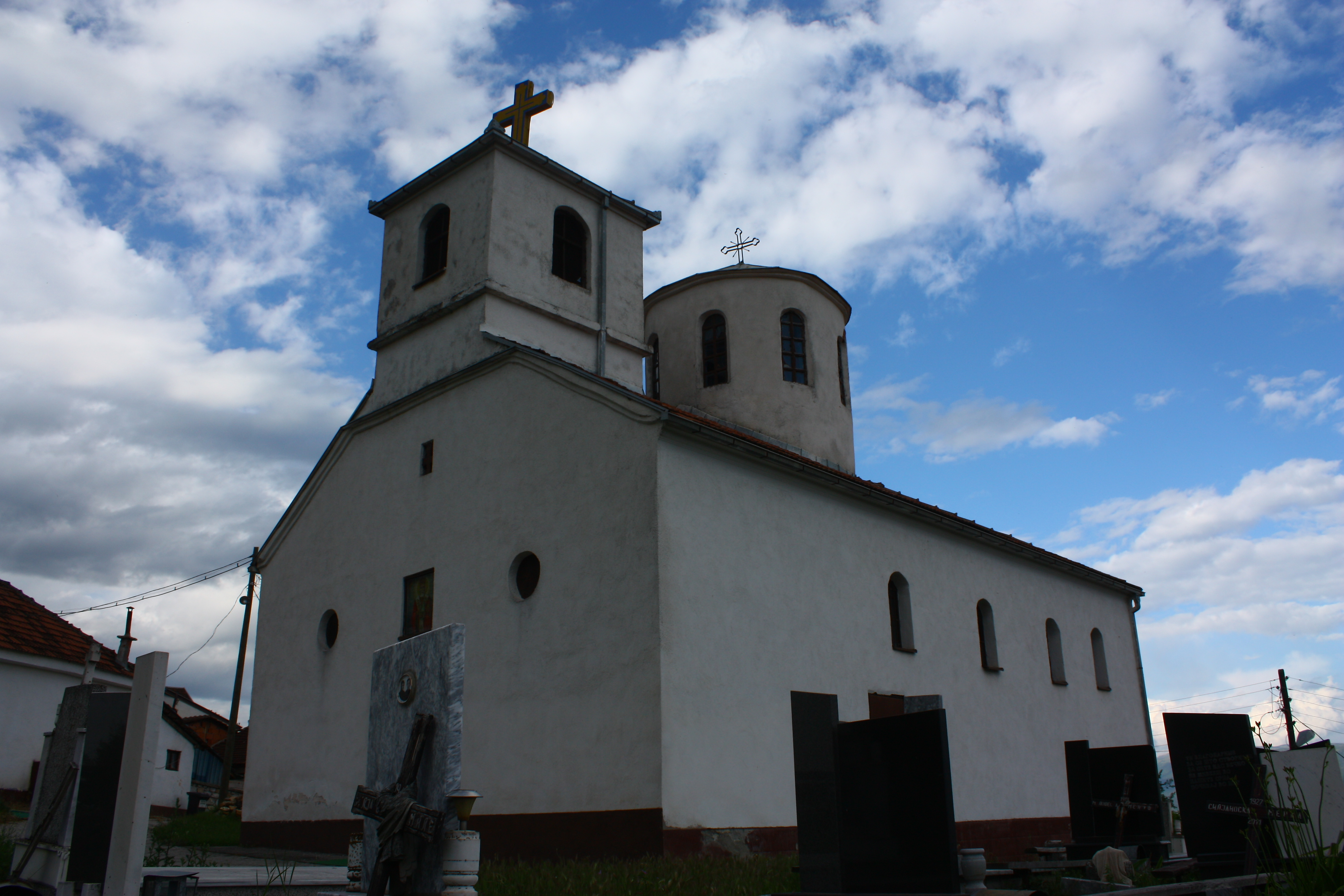 St. Nicholas Church in Galate, Macedonia